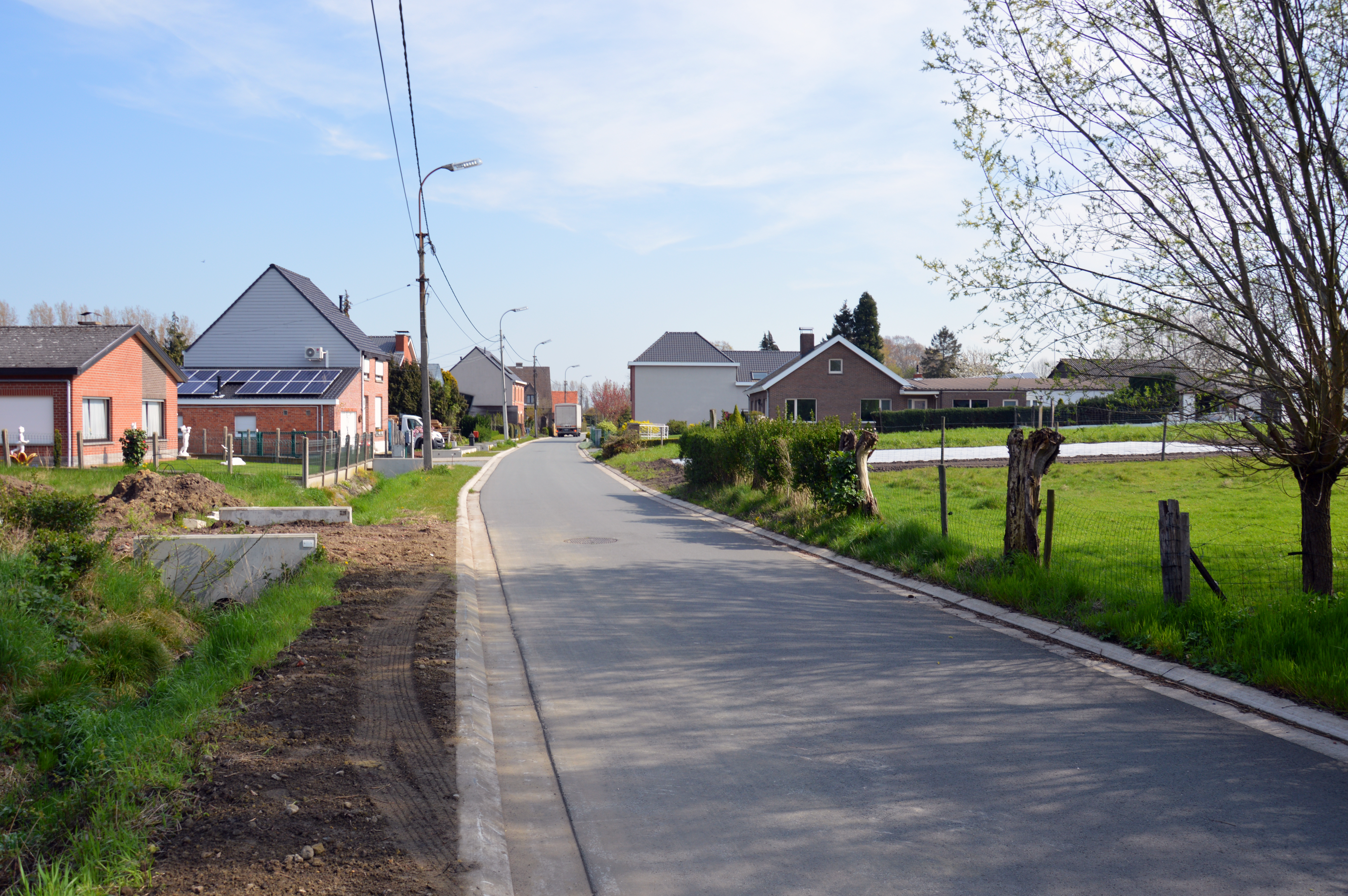 Jabekestraat, Wetteren, central area